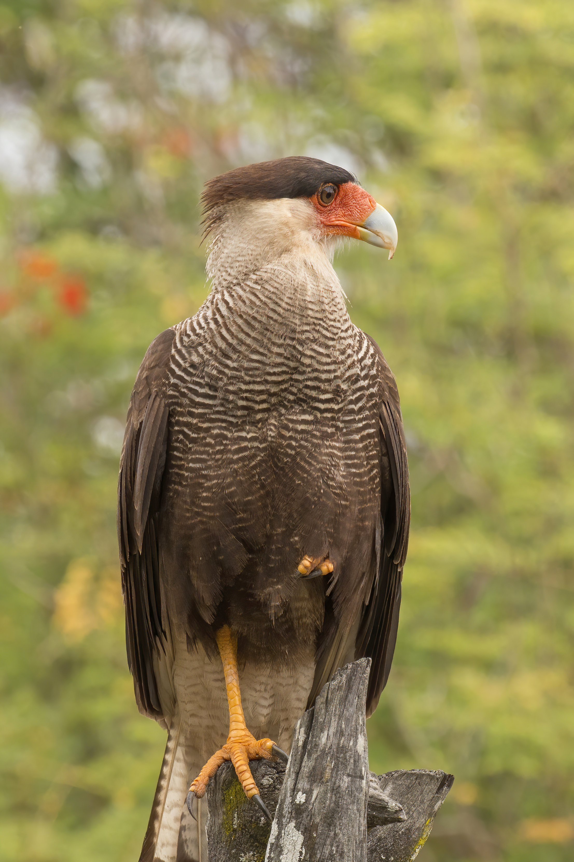 Southern crested caracara (Caracara plancus), the Pantanal, Brazil